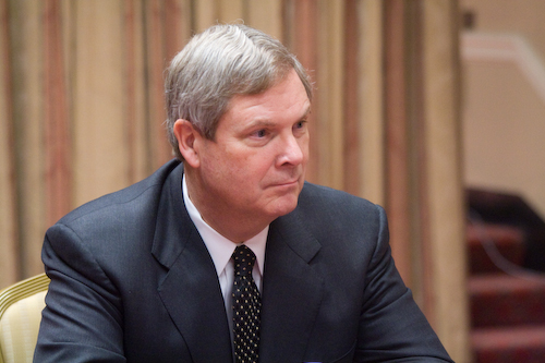 Tom Vilsack after being announced United States Secretary of Agriculture for the Barack Obama transition team